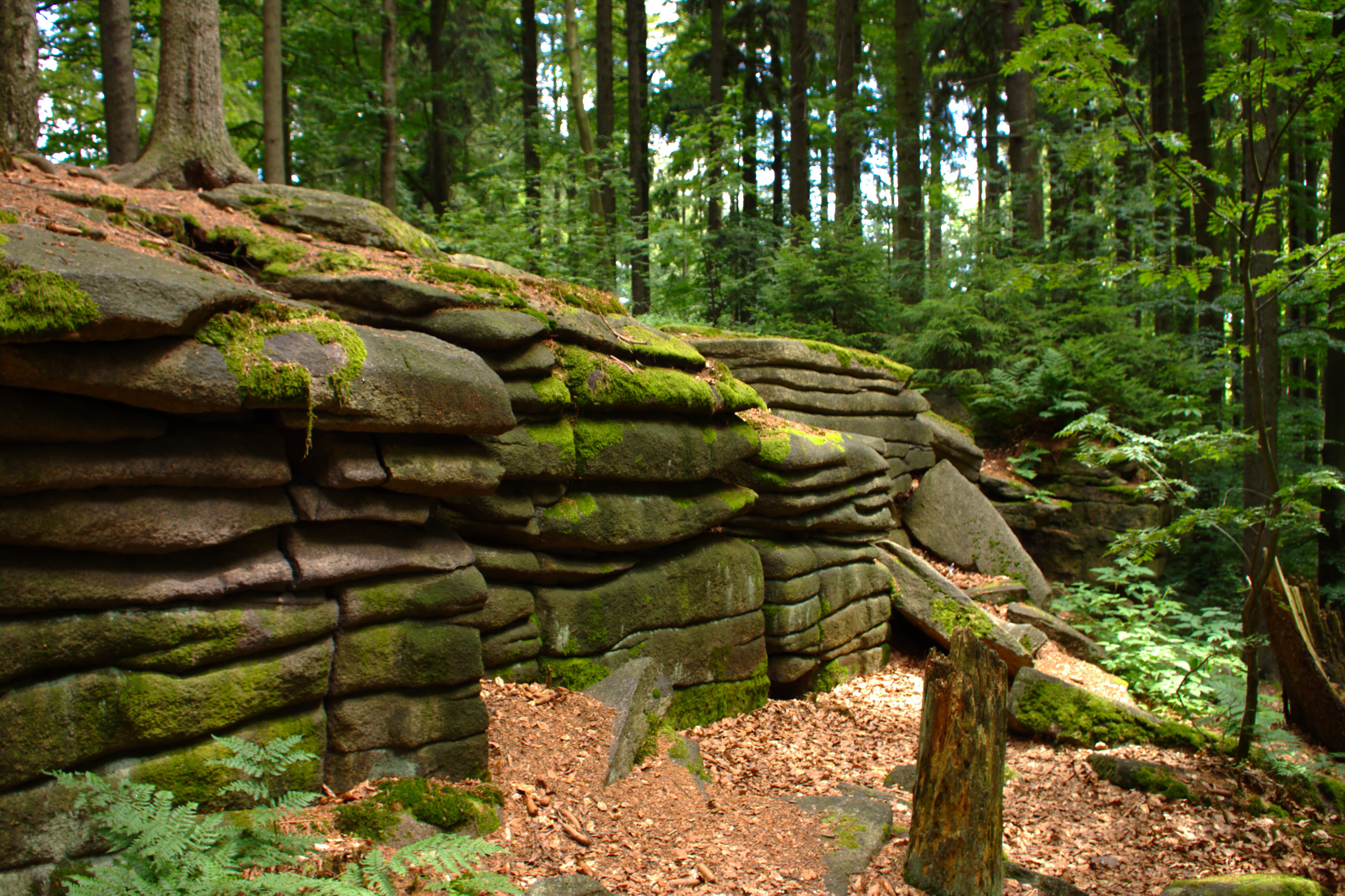 Natural monument Čertův Hrádek near the town of Nový Rychnov, Vysočina Region, CZ